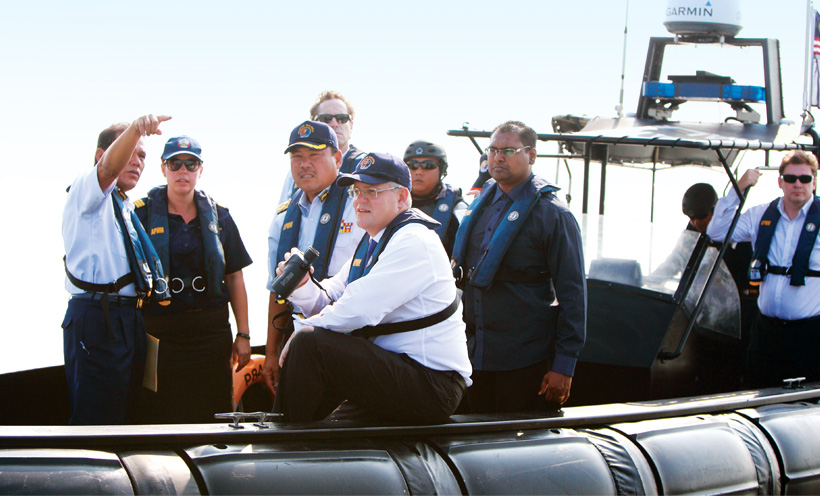 Australian Immigration Minister Scott Morrison on a vessel investigating hot spots for people smuggling off the Malaysian coast with officials from the Malaysian Maritime Enforcement Agency in February 2014